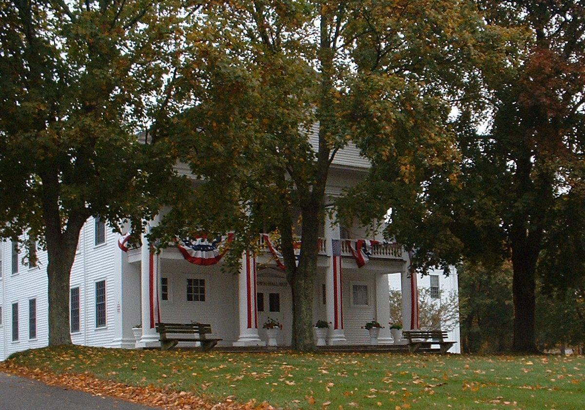 Halifax Town Hall, Halifax, Massachusetts, United States. The town hall is surrounded by a grove of trees.